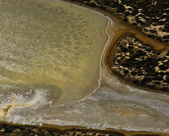 Aerial photo of Soda Lake on the Carrizo Plain with water after rains February 2009.